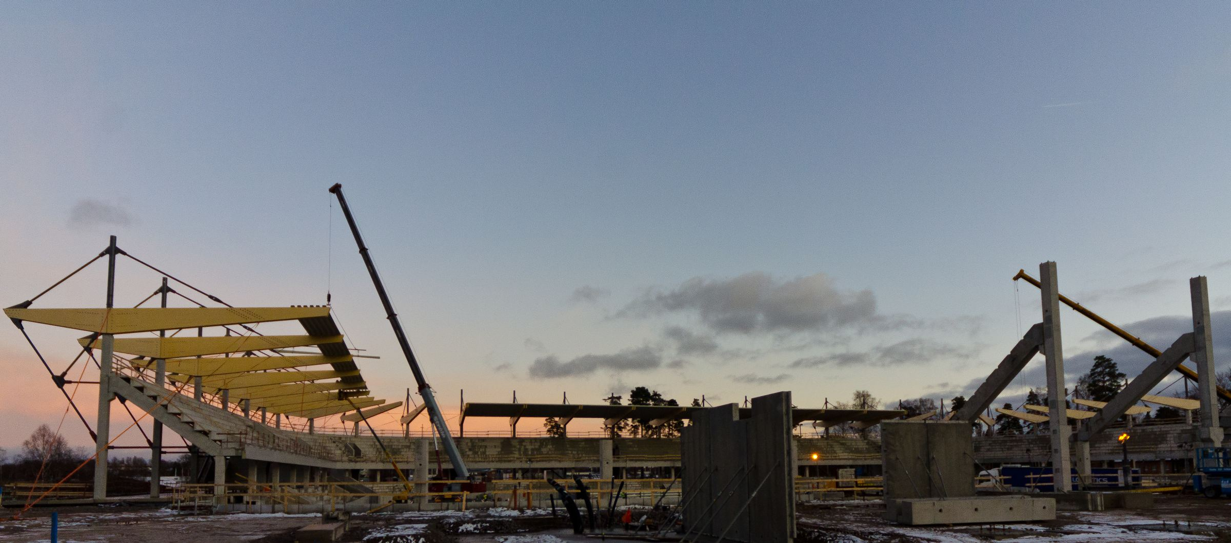 Myresjöhus Arena at sundown, December 2012